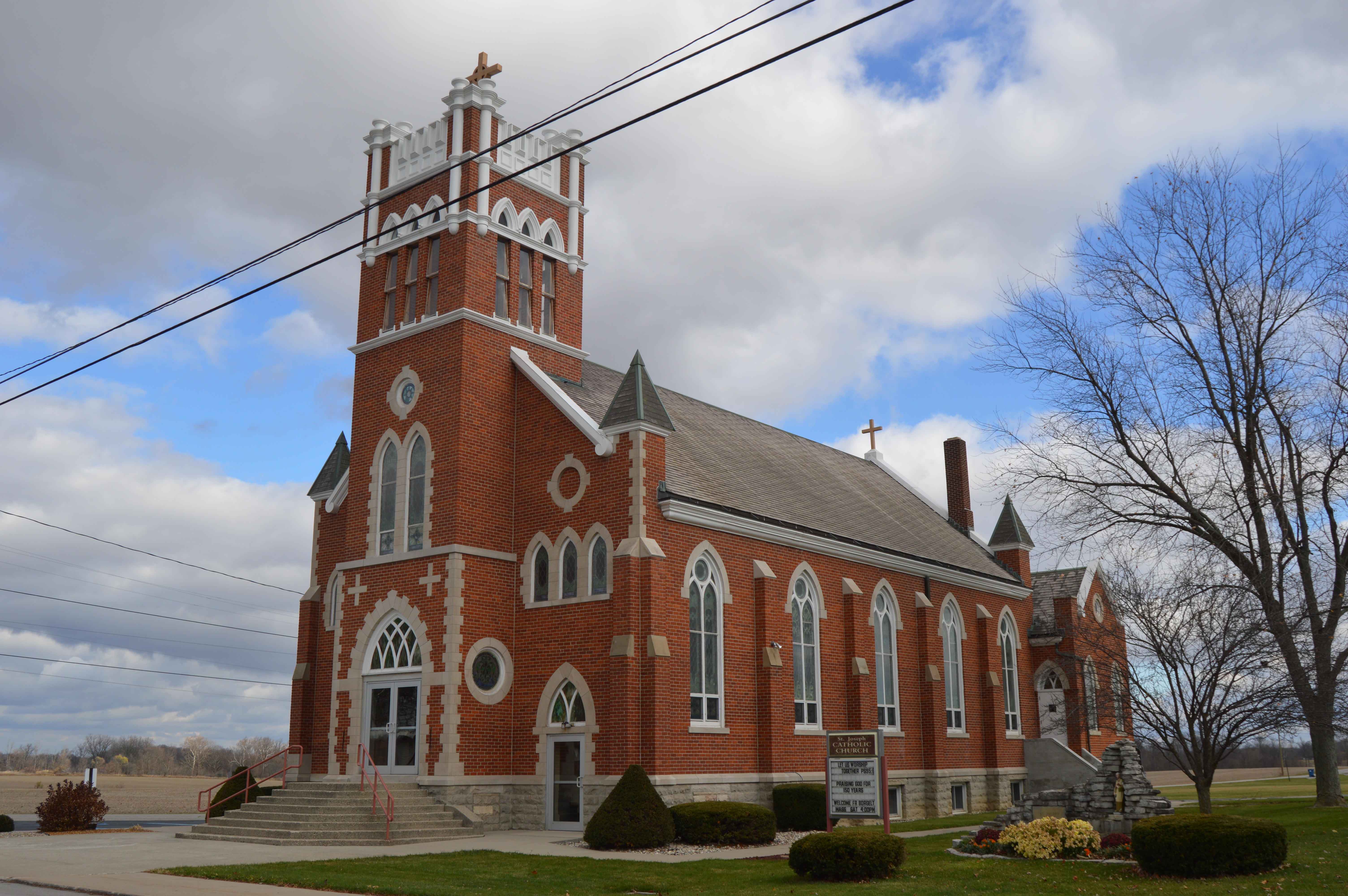 Front and southern side of St. Joseph's Catholic Church, located on Washington Street (State Route 34) in northern Blakeslee, Ohio, United States. It was built in 1906, using bricks from a previous church that had been condemned for structural problems.